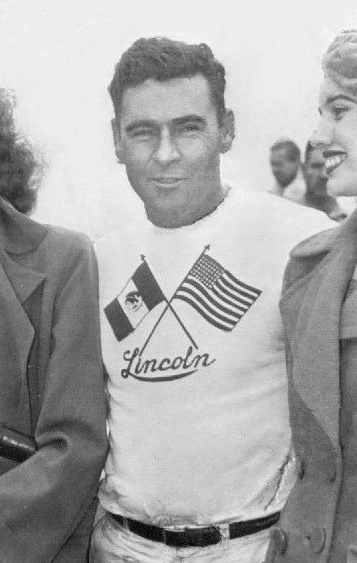 1952 Pan American Road Race Winner Chuck Stevenson Met at Finish Press Photo